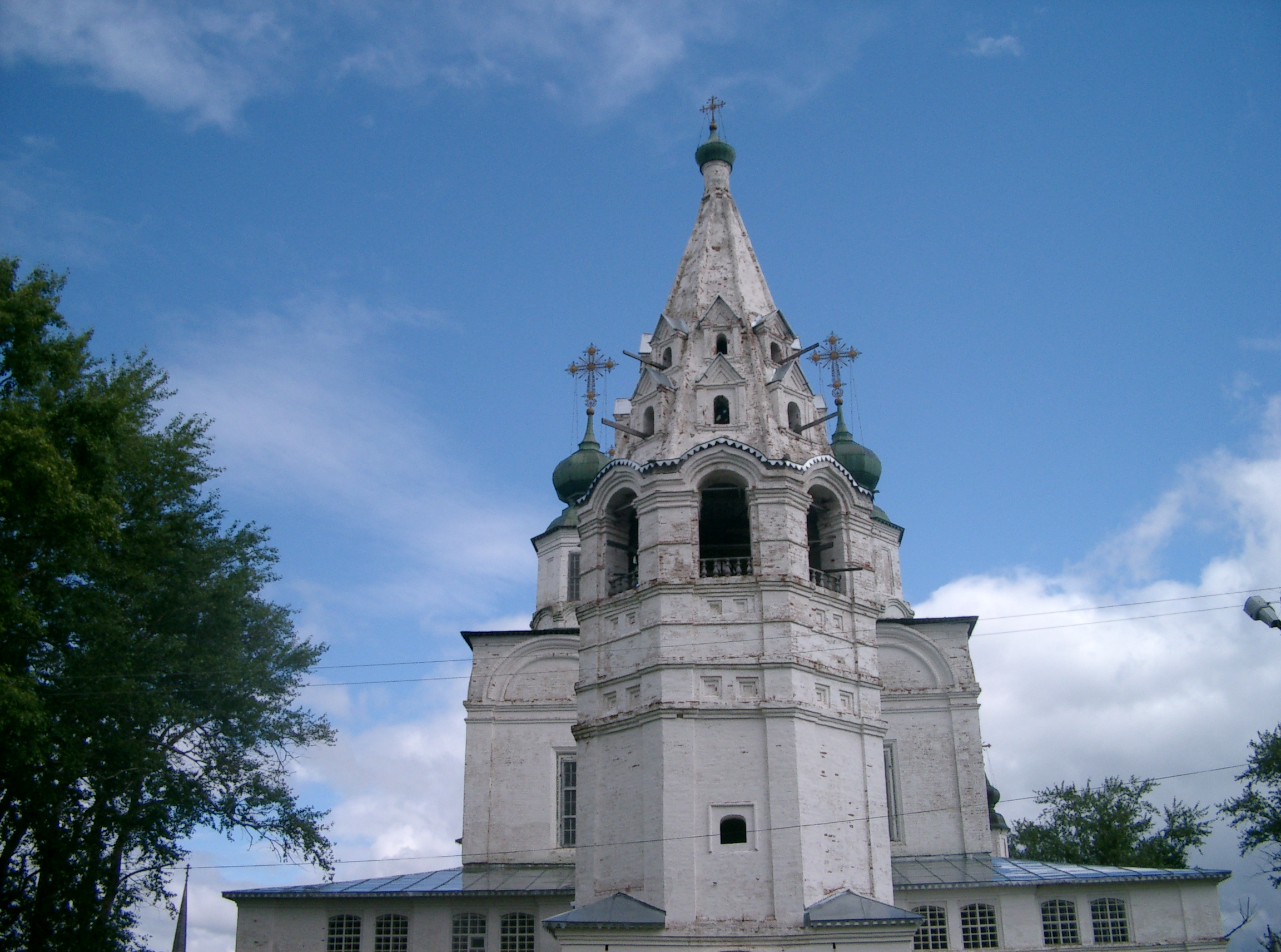 The Trinity Cathedral (background) and the bell tower (foreground) of Troitse-Gledensky Monastery, architectural monument of the federal significance #3510141000